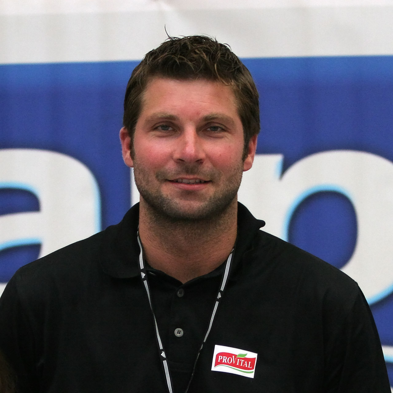 Daniel Stephan, former handball player of the handball club TBV Lemgo (Germany), now manager of this team, during the Chlecker Cup